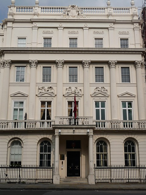 This is the centrepiece of the north-east terrace. The four terraces were designed by George Basevi with each being subtly different - No. 43 has an engaged portico of six fluted Corinthian columns. Grade I listed. It now houses the Turkish Embassy. The square was laid out from around 1826. Unusually, detached mansions were designed by separate architects for three of the corners.